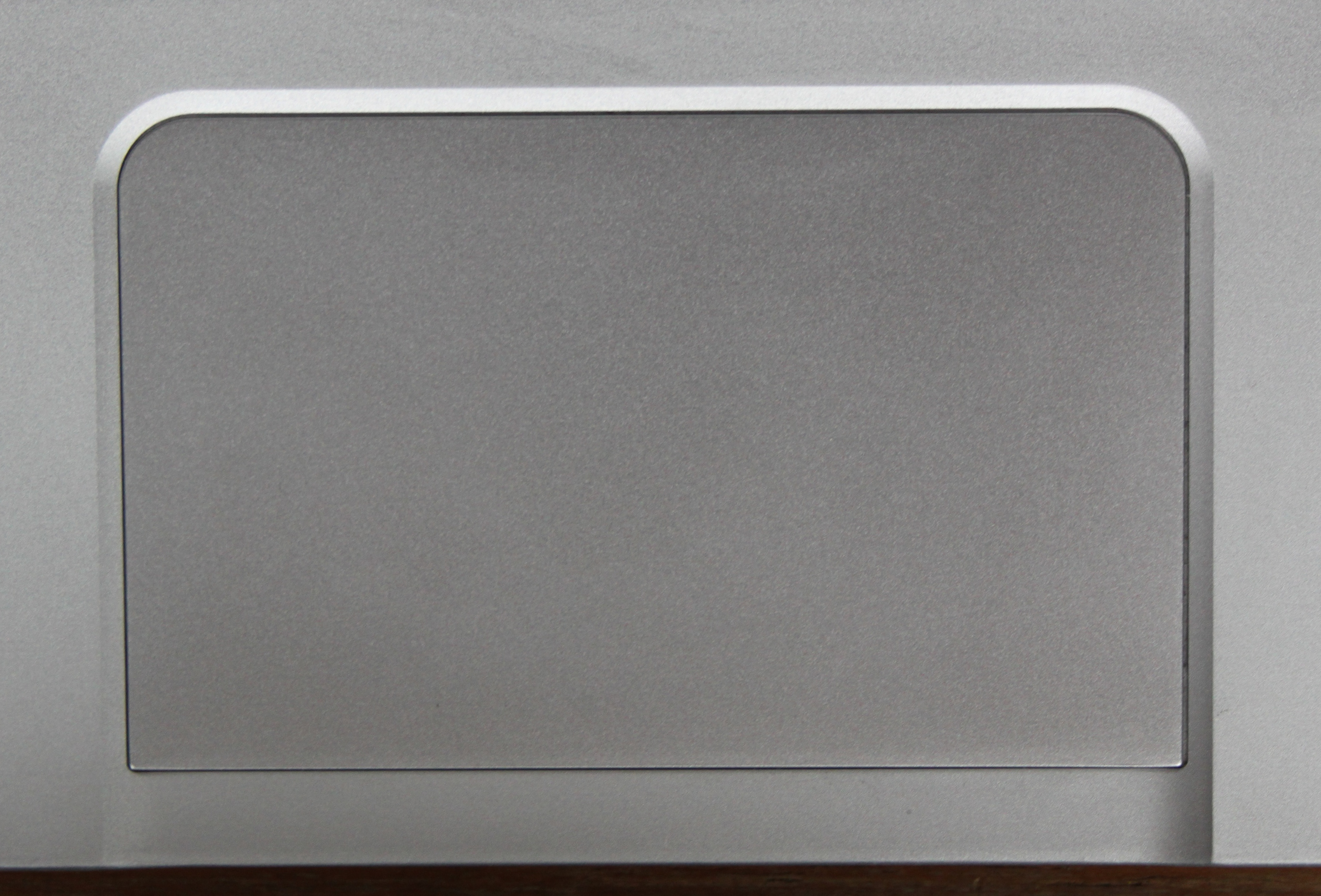 Clickpad